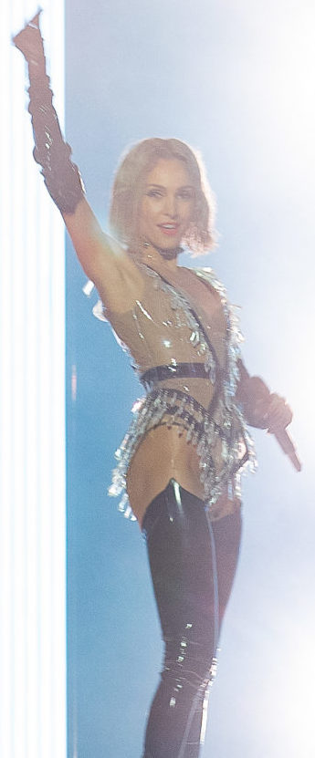 Tamta at the Eurovision Song Contest 2019 in Tel Aviv.